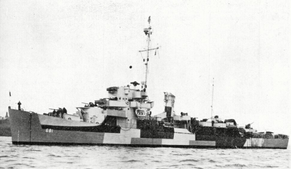 The U.S. Navy destroyer escort USS Gillette (DE-681) at anchor in June 1944.